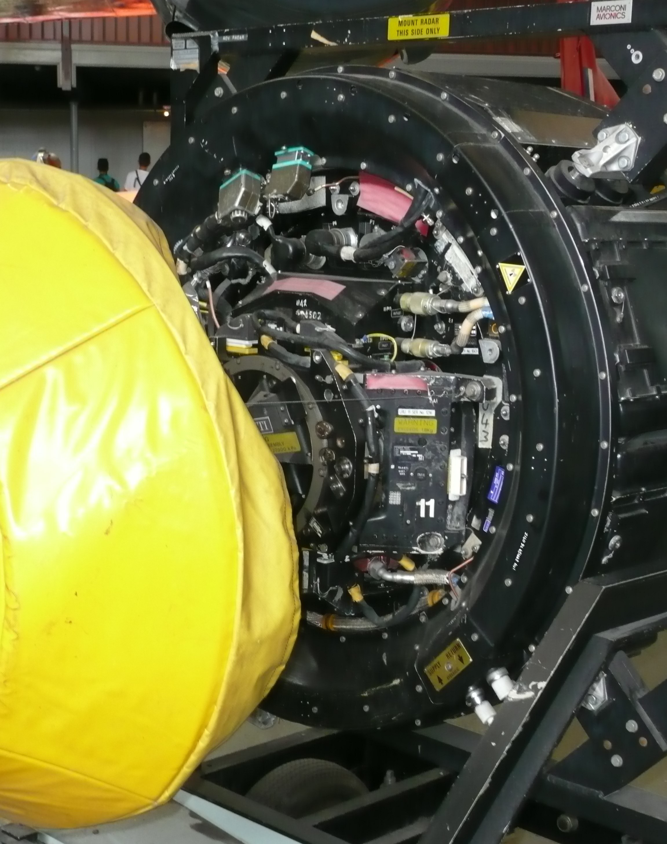 AI.24 Foxhunter radar on display at the Manchester Museum of Science and Industry